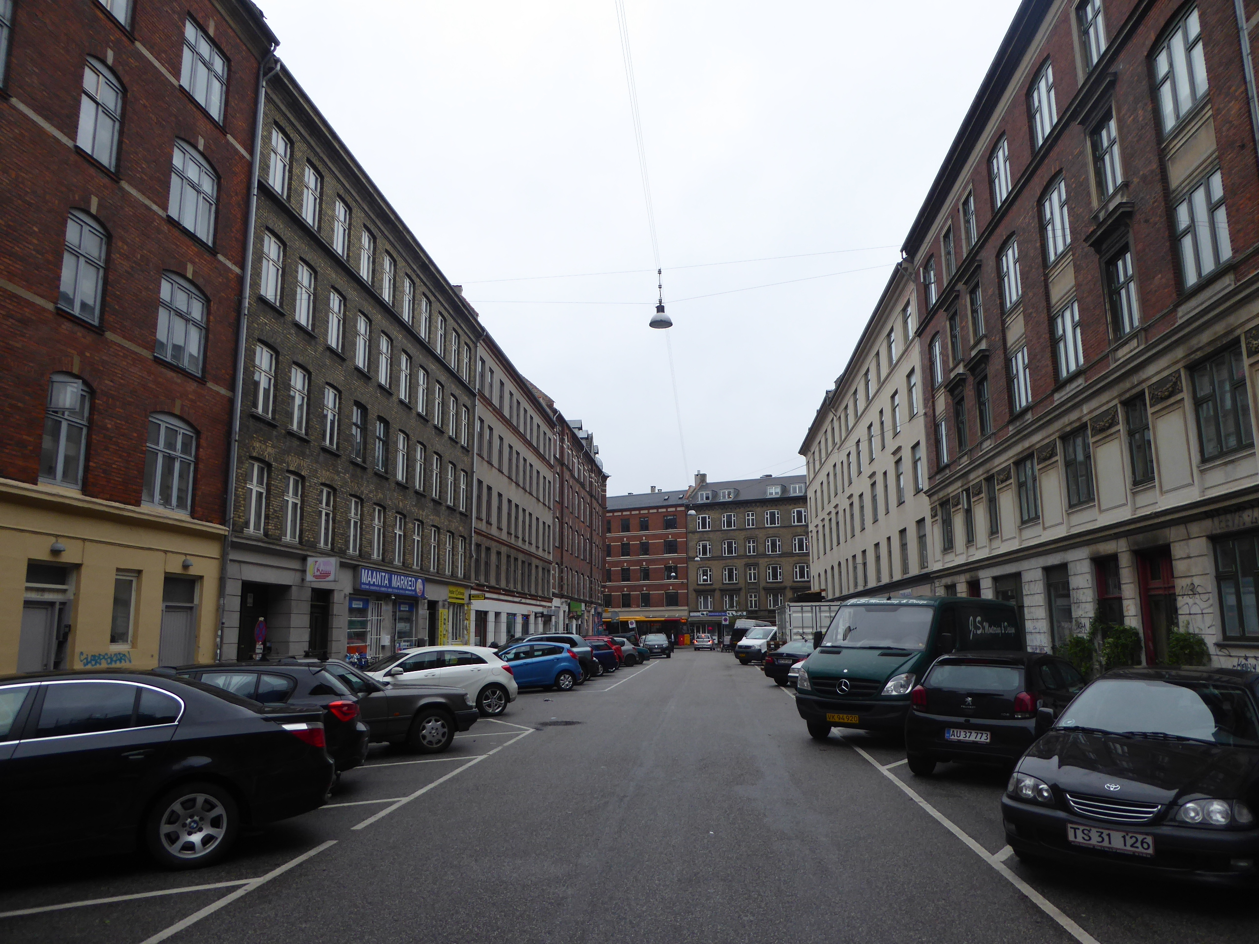 The street Heimdalsgade in Nørrebro in Copenhagen.